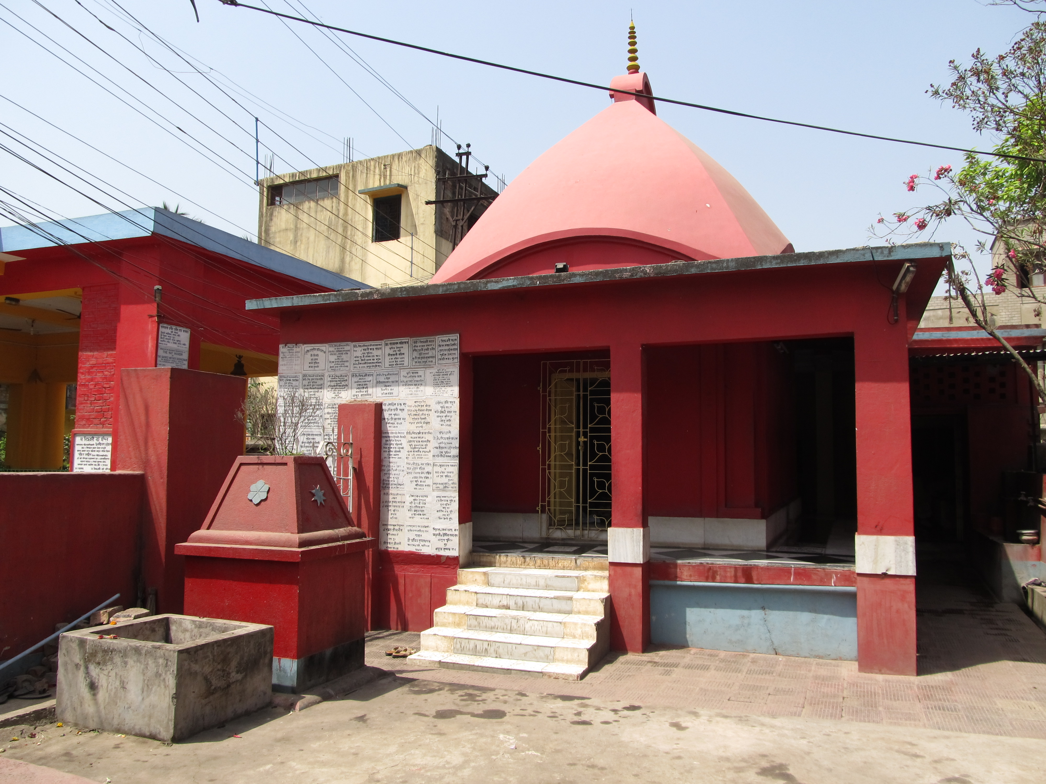 Siddheswari mandir at Siddheswaritala, Andul, Howrah.